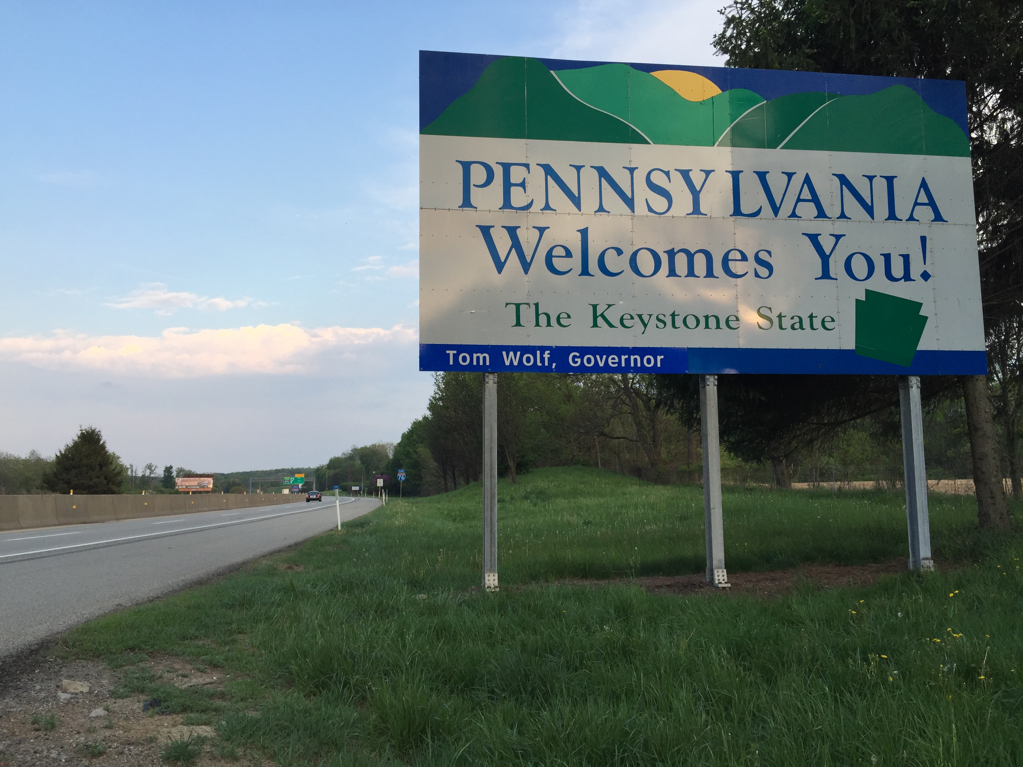 View east along the Pennsylvania Turnpike (Interstate 76) entering North Beaver Township, Lawrence County, Pennsylvania